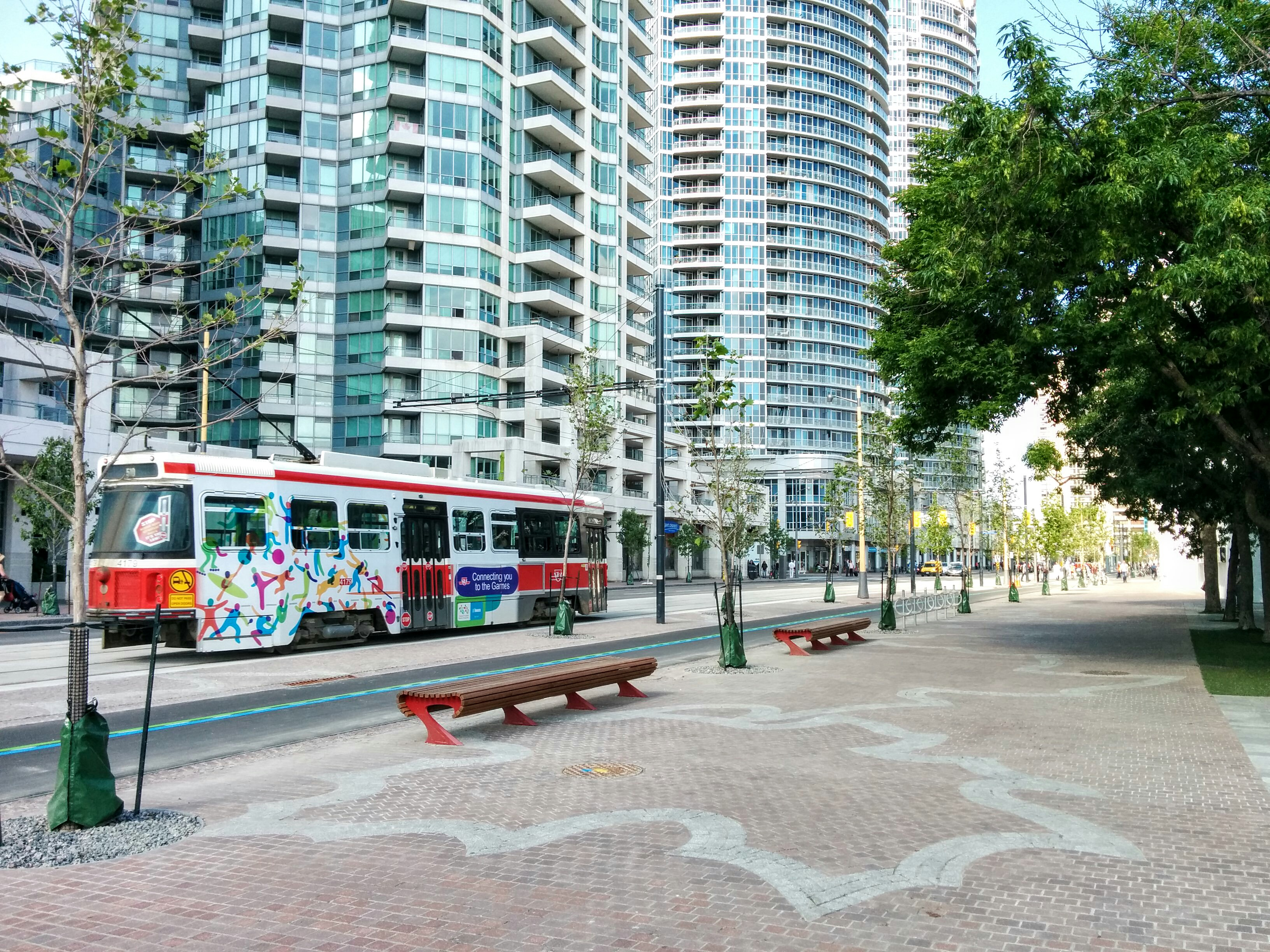 A view of the recently completed revitalization of Queens Quay in Toronto.